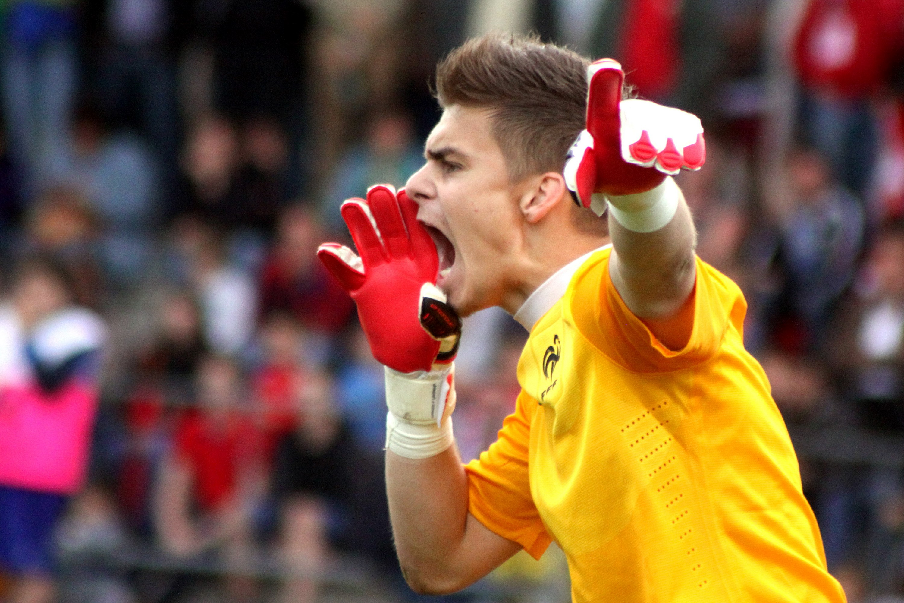 Qualification for the 2013 UEFA European Under-19 Football Championship qualification Austria vs. France (0:1) on 2013-2013-06-10 in Traiskirchen. – The photo shows the goalkeeper Quentin Beunardeau (Le Mans FC).